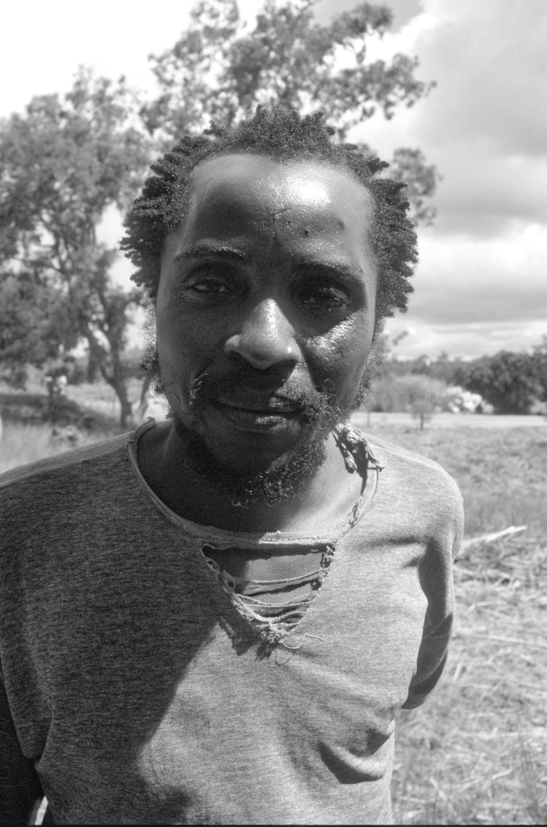 Eddy Masaya, Harare, 1996